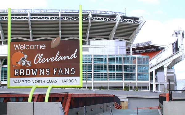 Entrance ramp on the southeast side of Cleveland Browns Stadium in downtown Cleveland, Ohio (taken Sept. 26, 2004) © 2004 Matthew Trump 23:59, 3 November 2004 . . Decumanus . . 600×374 (83,887 bytes)